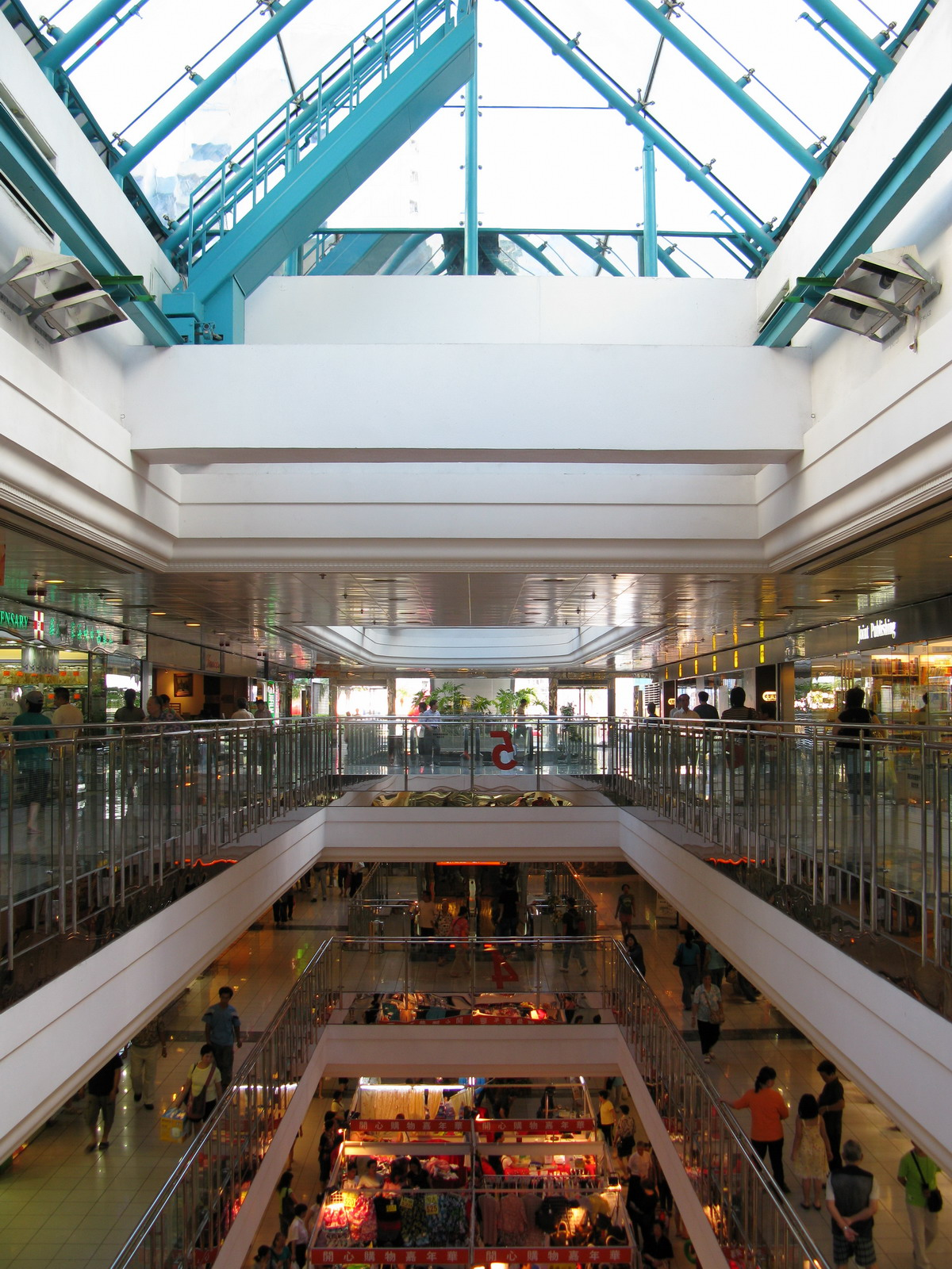 Tsz Wan Shan Shopping Centre 5/F Atrium